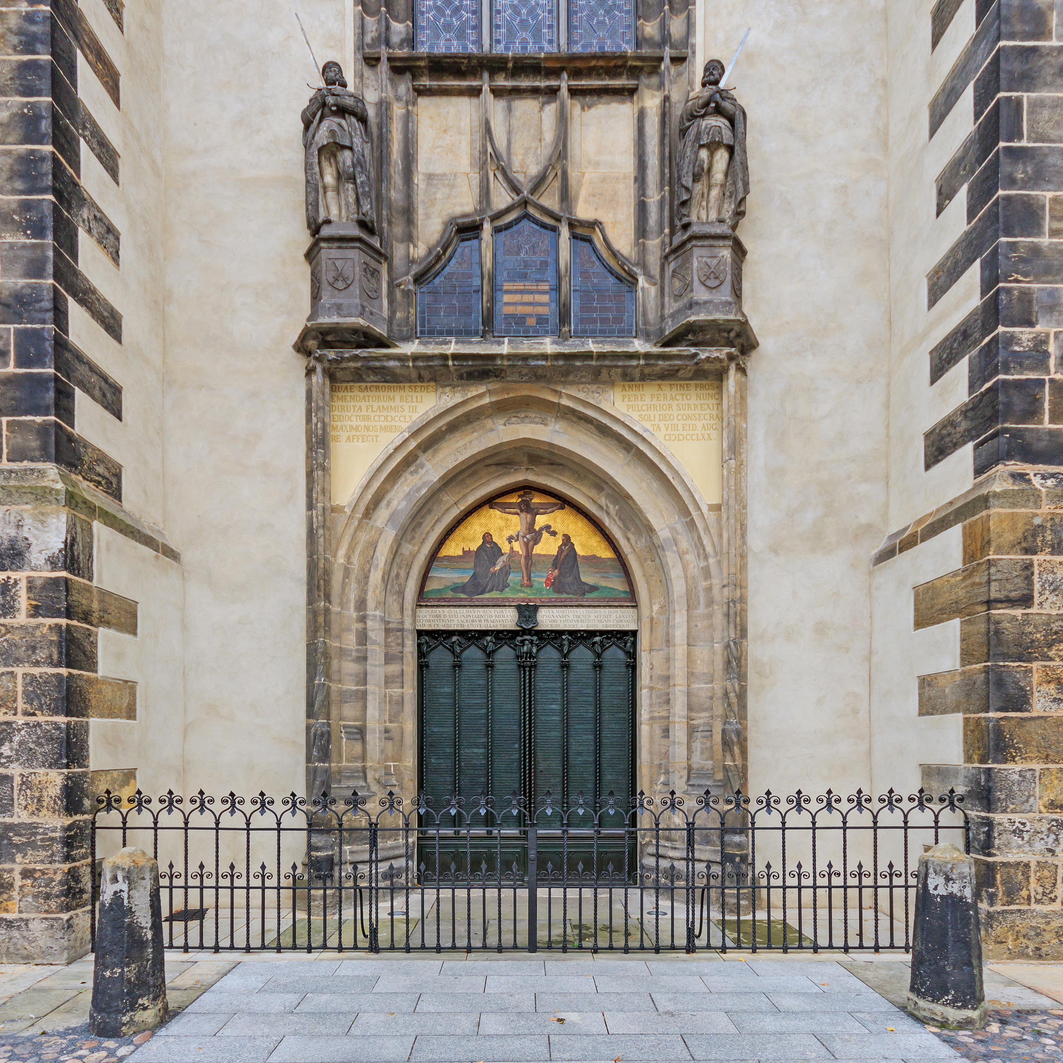 Door of the Theses in Wittenberg, Saxony-Anhalt, Germany